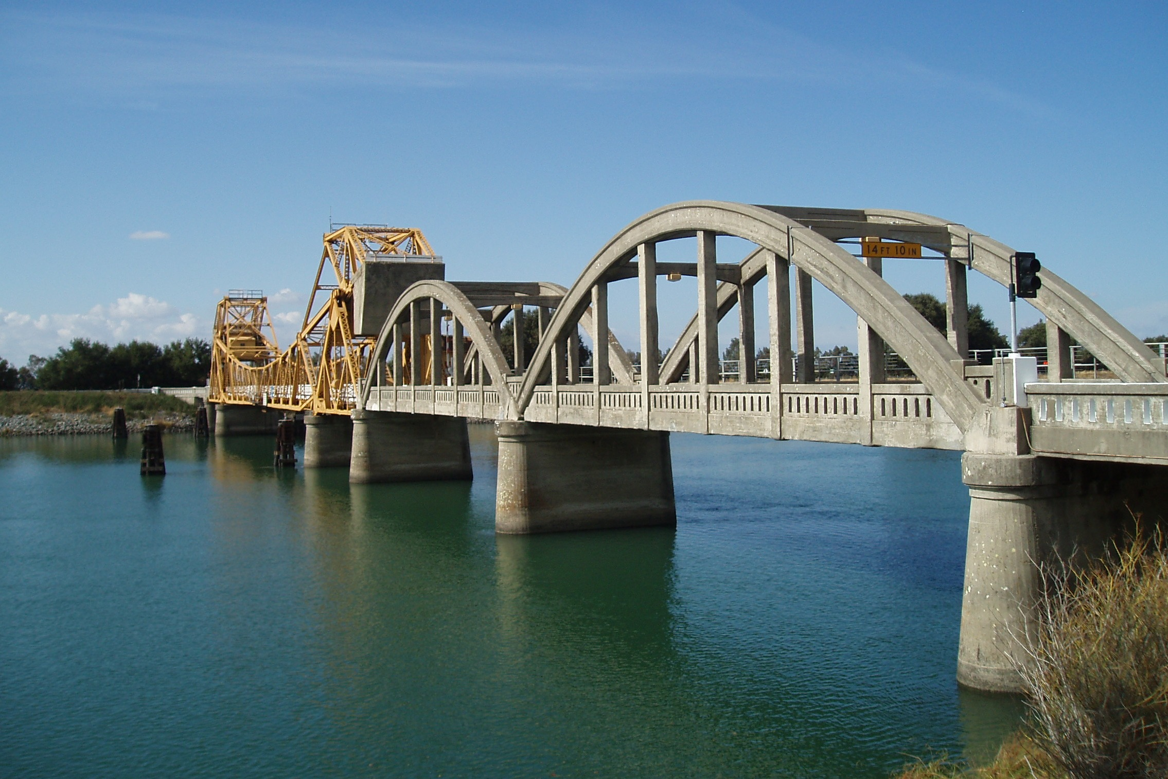 Bascule-type drawbridge across the Sacramento River just west of Isleton, California, built in 1923.